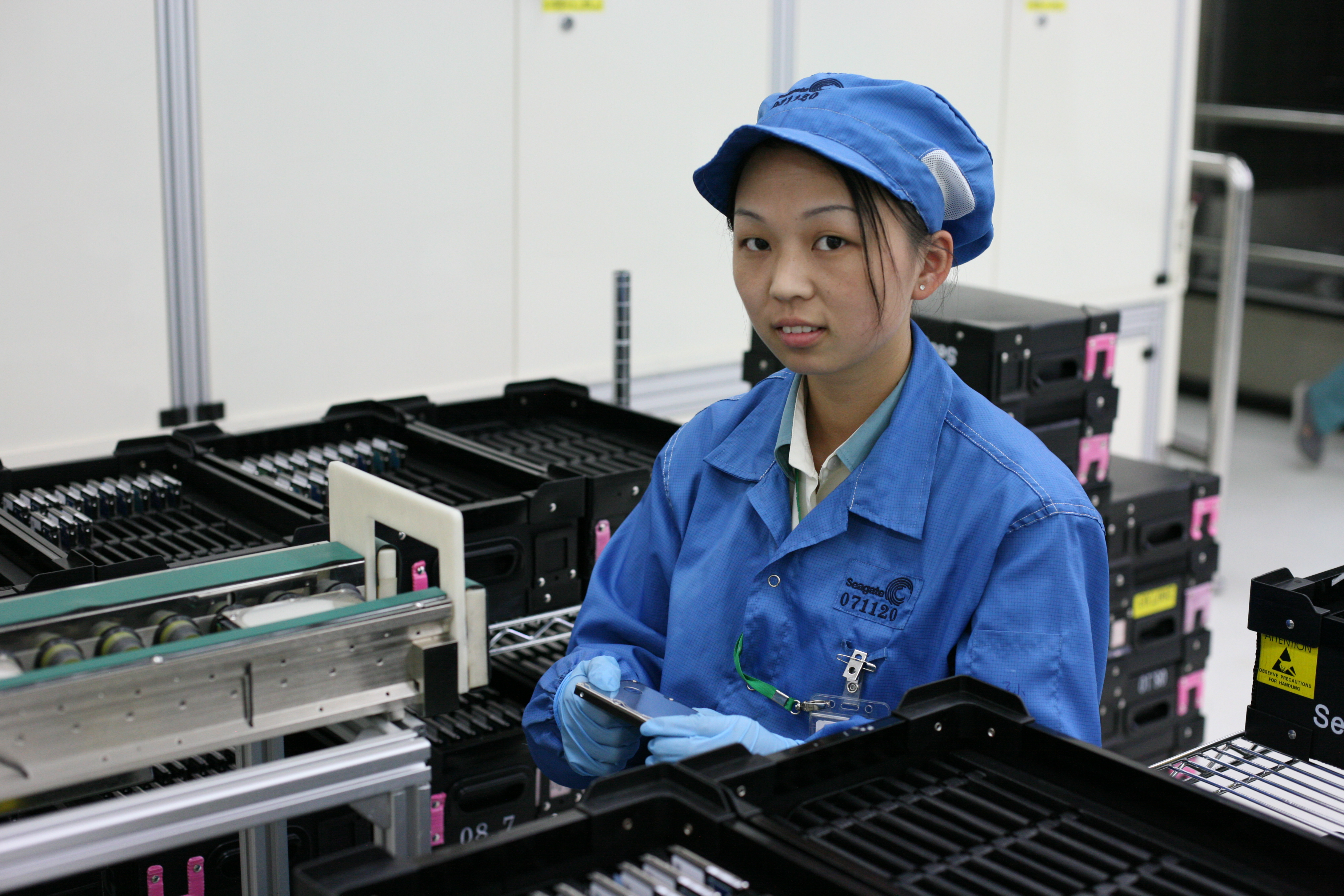 Part of our tour of Seagate's plant in Wuxi, China today.